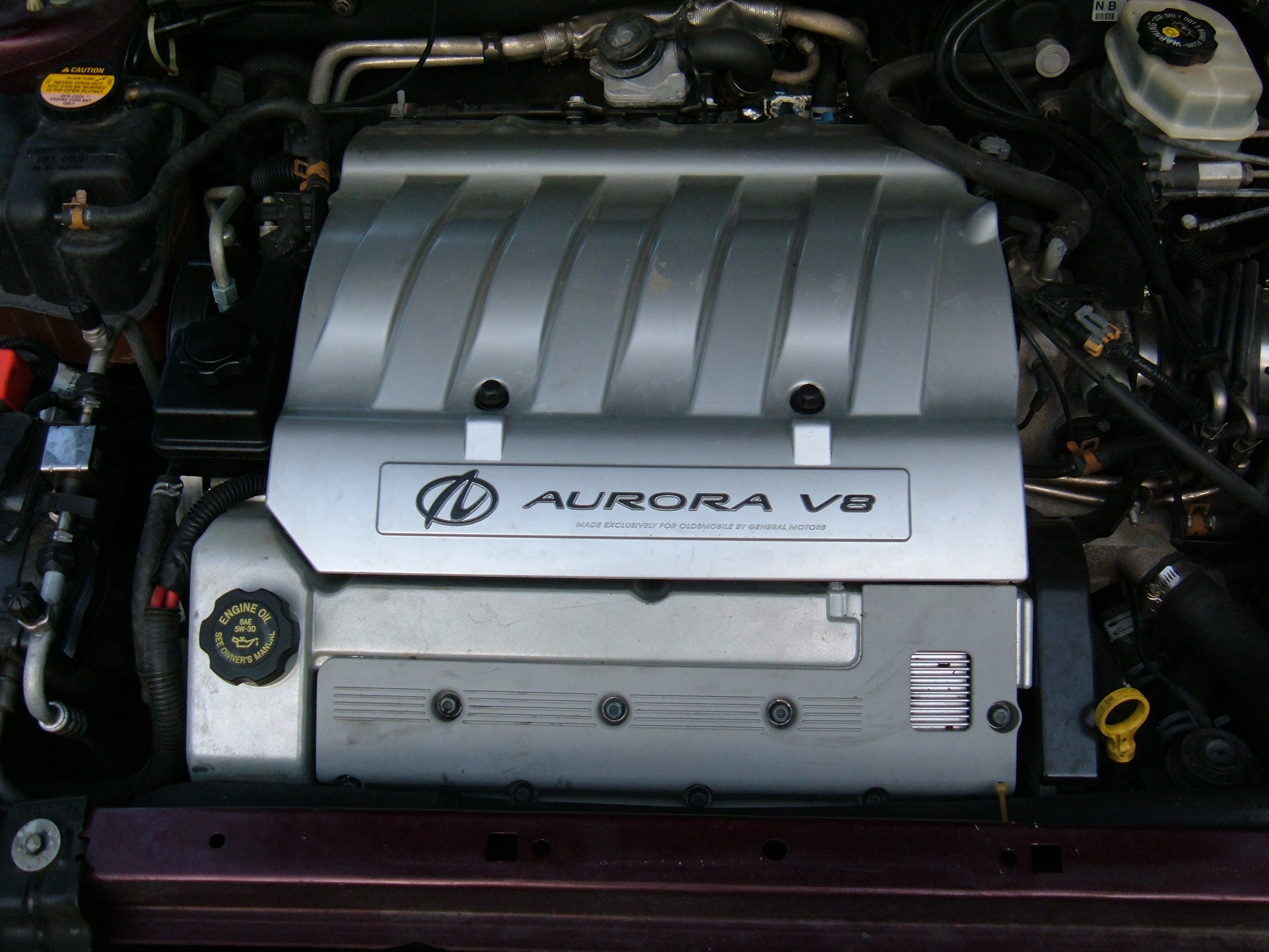 Photo taken July 15, 2006. User:JohnMcClane is the owner of the vehicle and releases the photo into public domain.